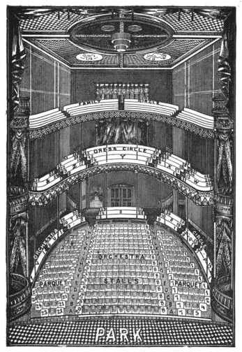 Boston, Massachusetts